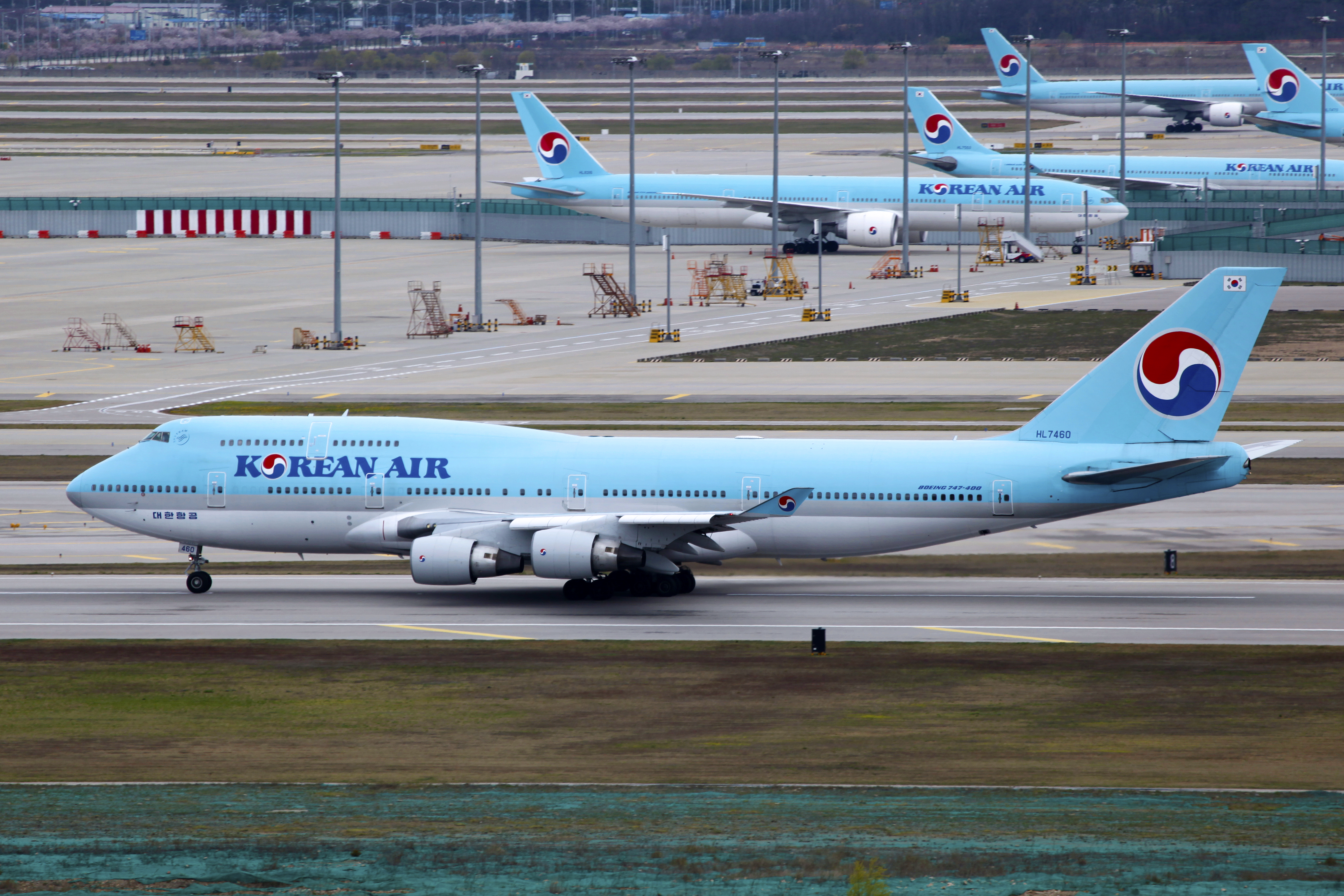 Korean Air Lines Boeing 747-4B5 Seoul Incheon International Airport [ICN]